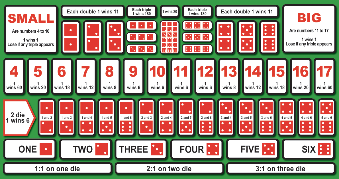 An example of a Sic bo table.